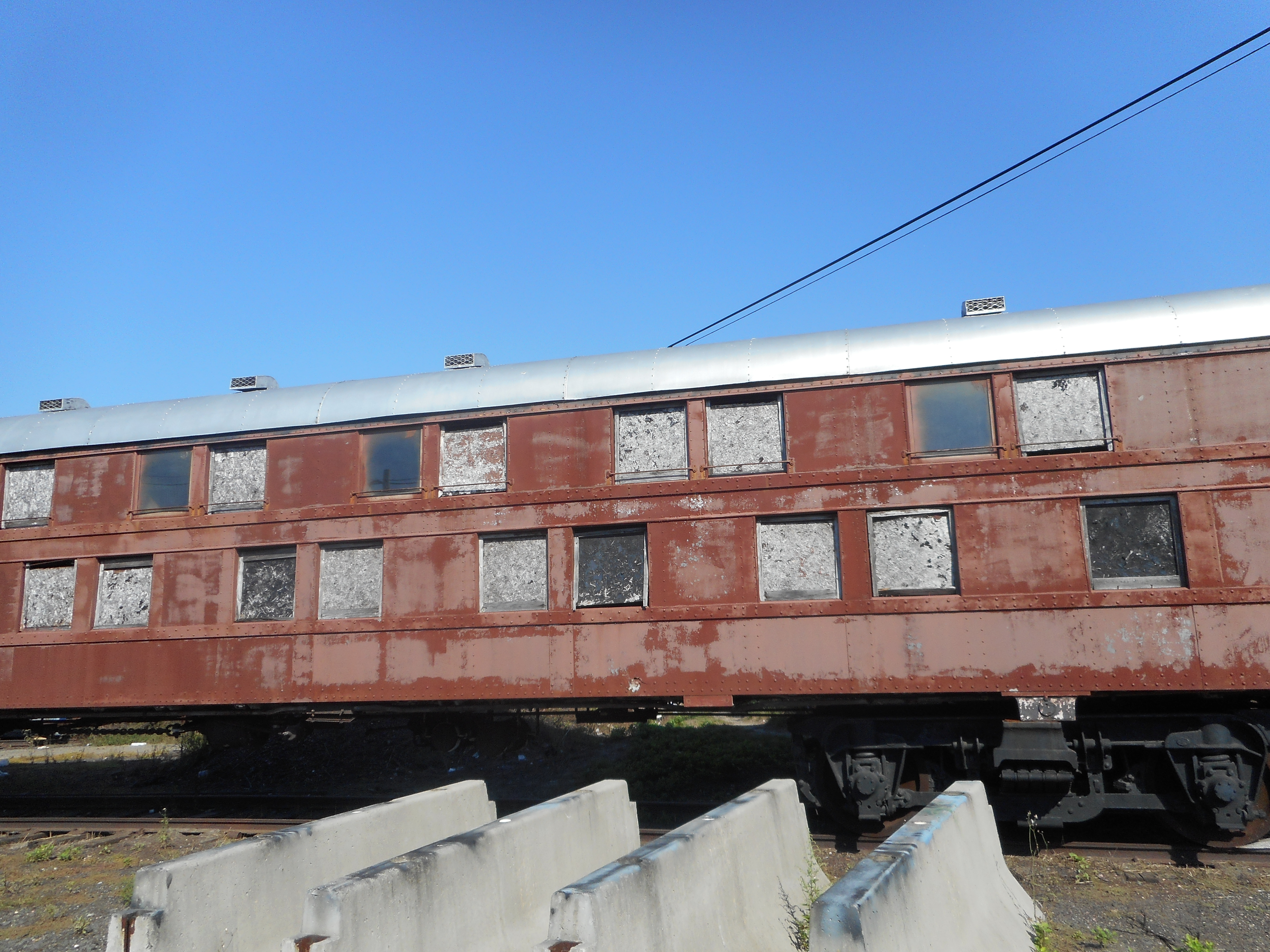 A 1932-built Long Island Rail Road #200 double decker passenger car under restoration at the Railroad Museum of Long Island in Riverhead, New York.